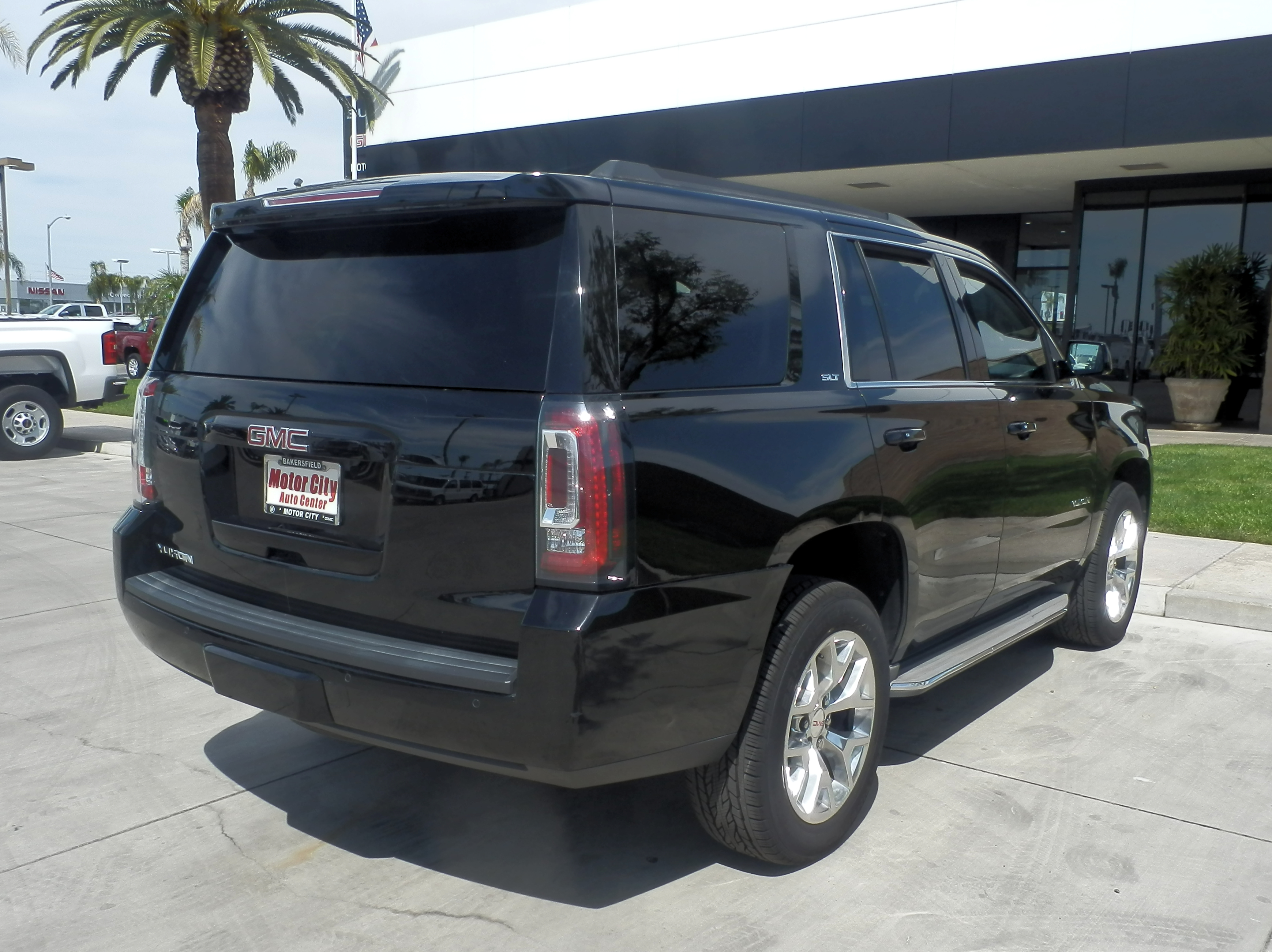 GMC Yukon in Bakersfield